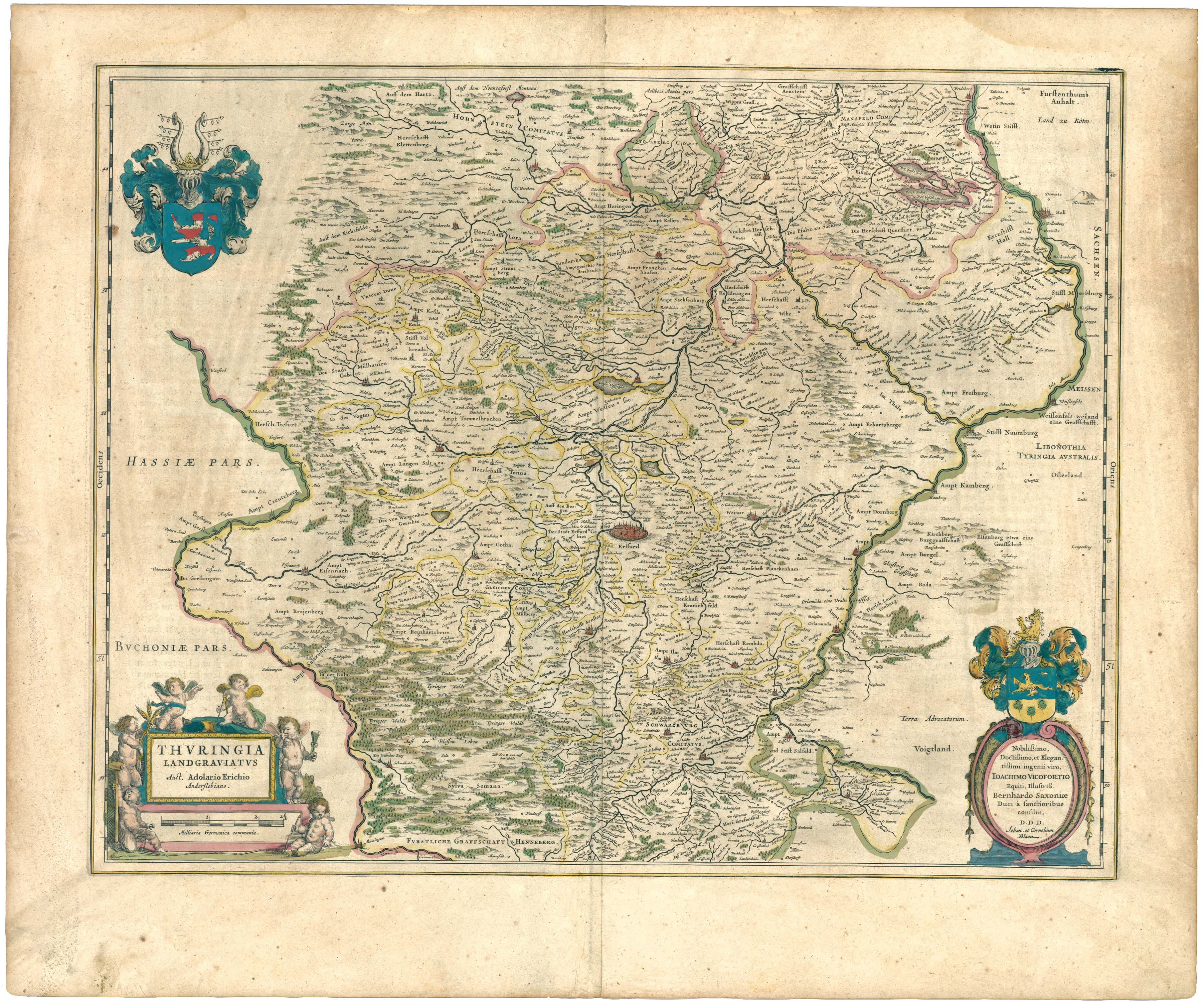 Thuringia Landgraviatus (Landgravate of Thuringia.)from"Theatrum Orbis Terrarum, sive Atlas Novus in quo Tabulæ et Descriptiones Omnium Regionum, Editæ a Guiljel et Ioanne Blaeu"(Theater of the World, or a New Atlas of Maps and Representations of All Regions, Edited by Willem and Joan Blaeu), 1645.